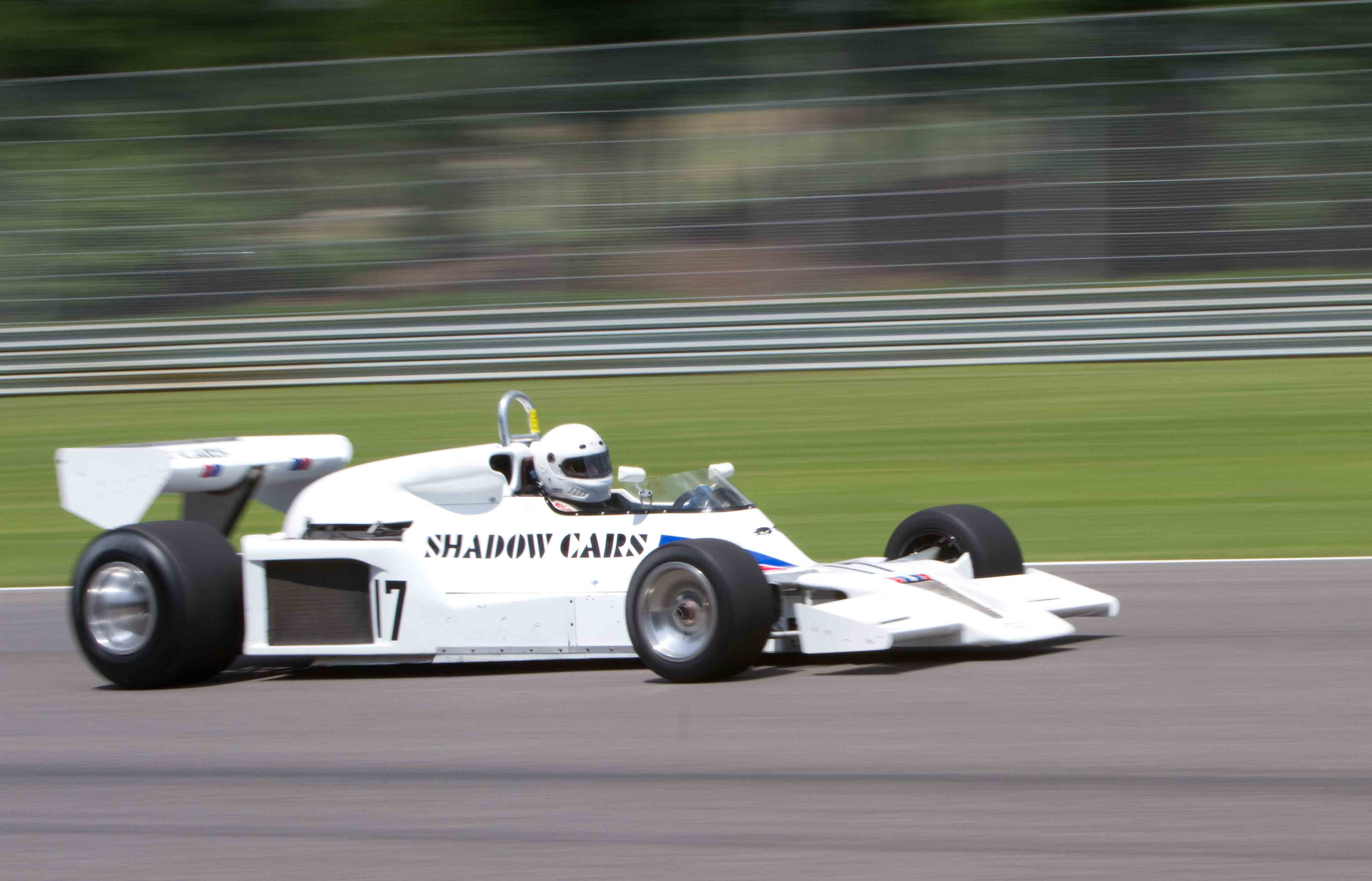 Shadow DN8 at Barber Motorsports Park, 2010